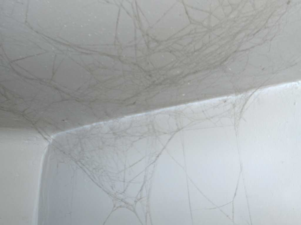 Common spider web found under ceiling.